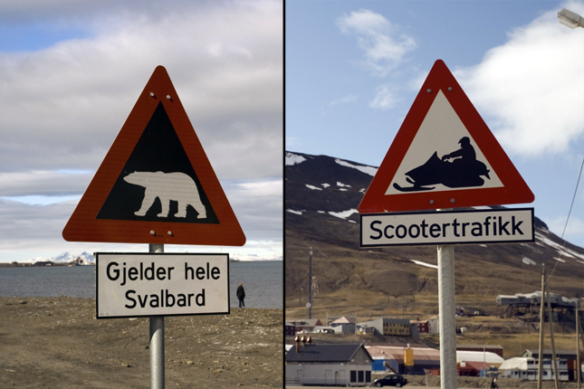 traffic signs in Longyearbyen, Svalbard